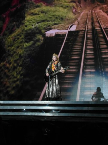 Madonna concert in Barcelona